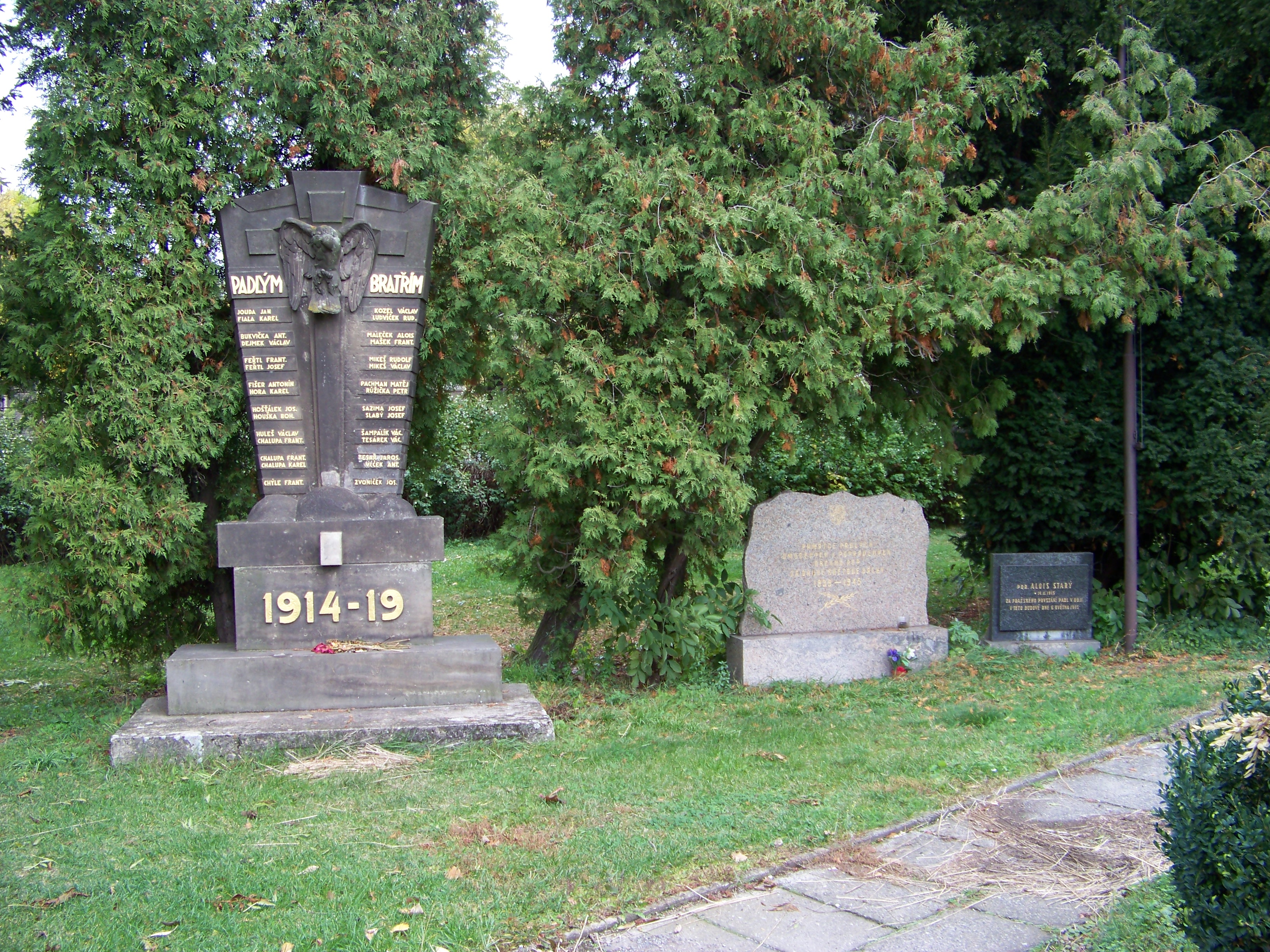 Prague-Řepy, the Czech Republic. Žalanského street, World War I and II memorial near the Řepy cemetery. - OpenStreetMap(Info)